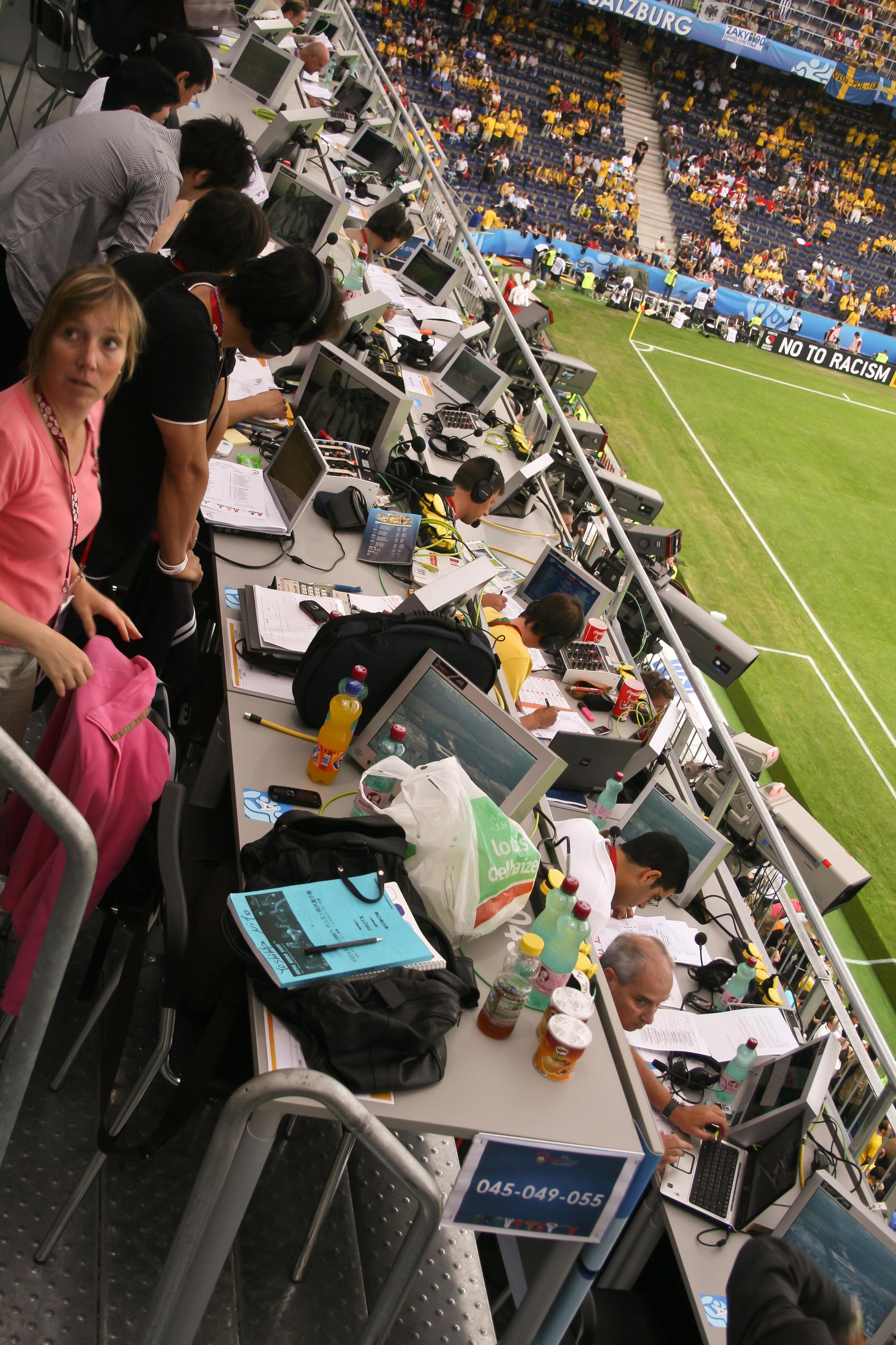 Press tribune in Salzburg during UEFA Euro 2008